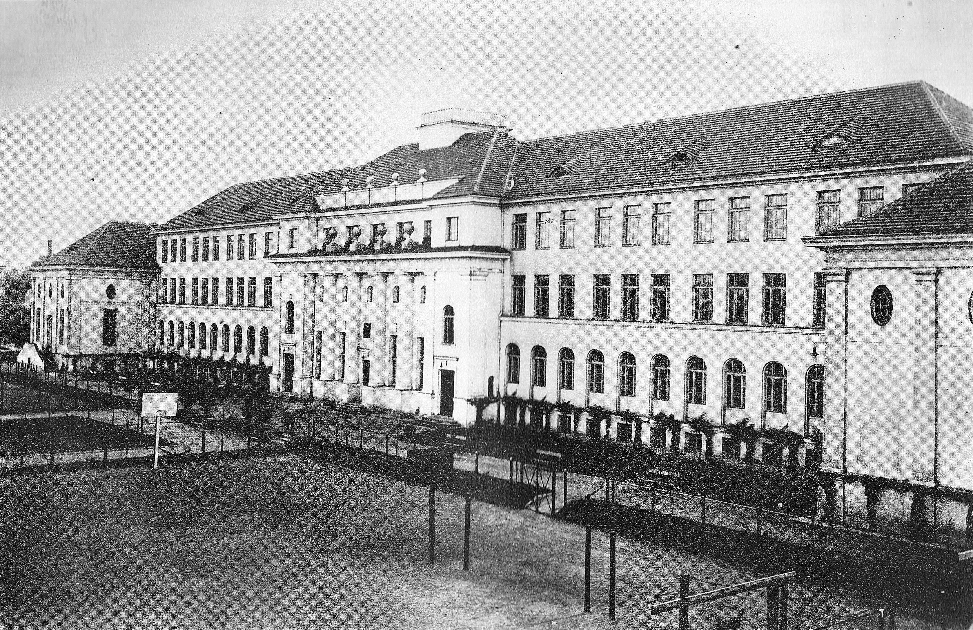 Building of former Tram College (currently III LO im. gen. Sowińskiego) at 2 Młynarska Street in Warsaw